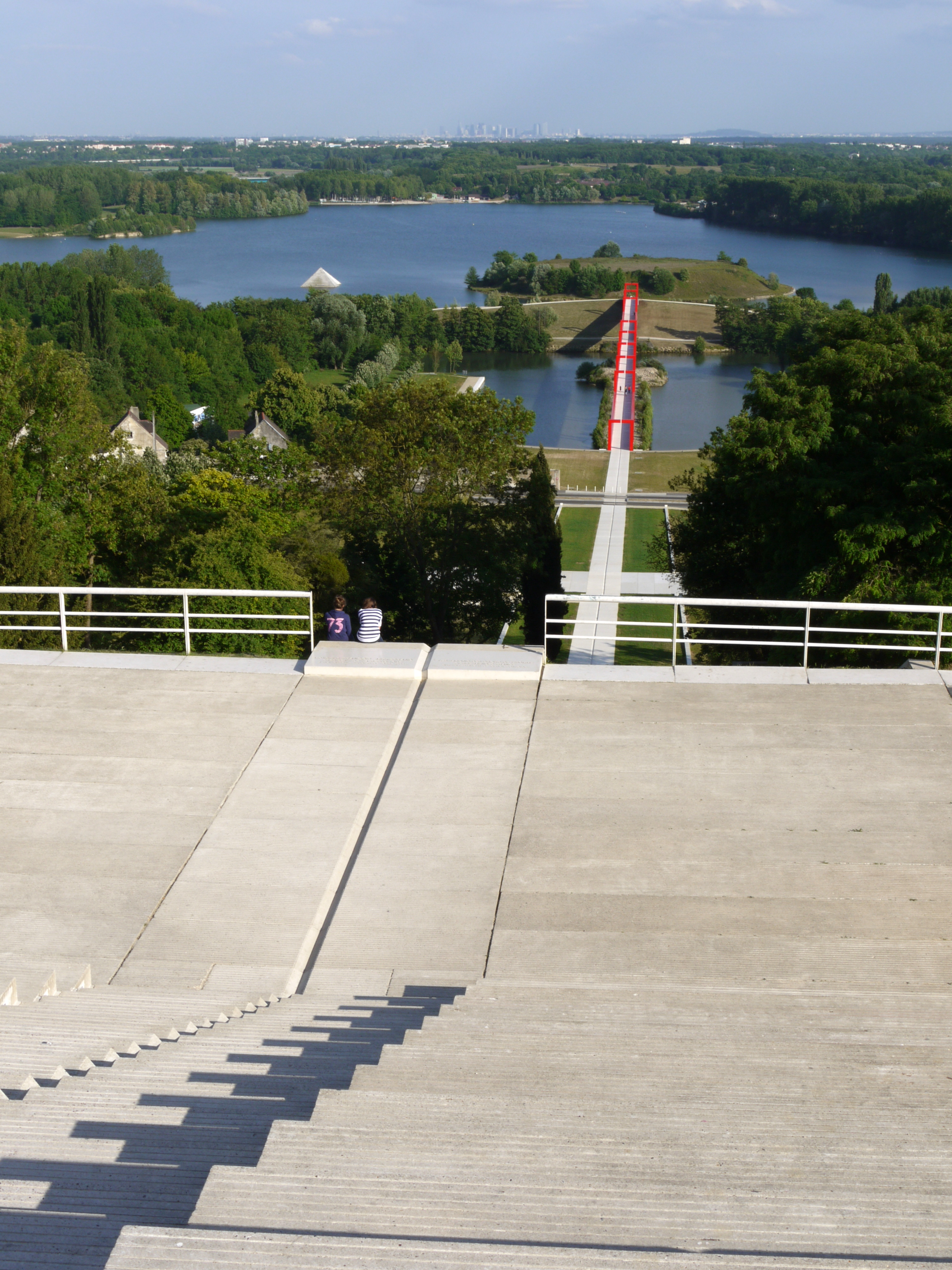 The Axe Majeur, symbol of the Cergy-Pontoise district, suburb of Paris (France) joined the town and the leisure center in a loop of the river Oise. The towers of the business district of La Defense can be seen on the horizon